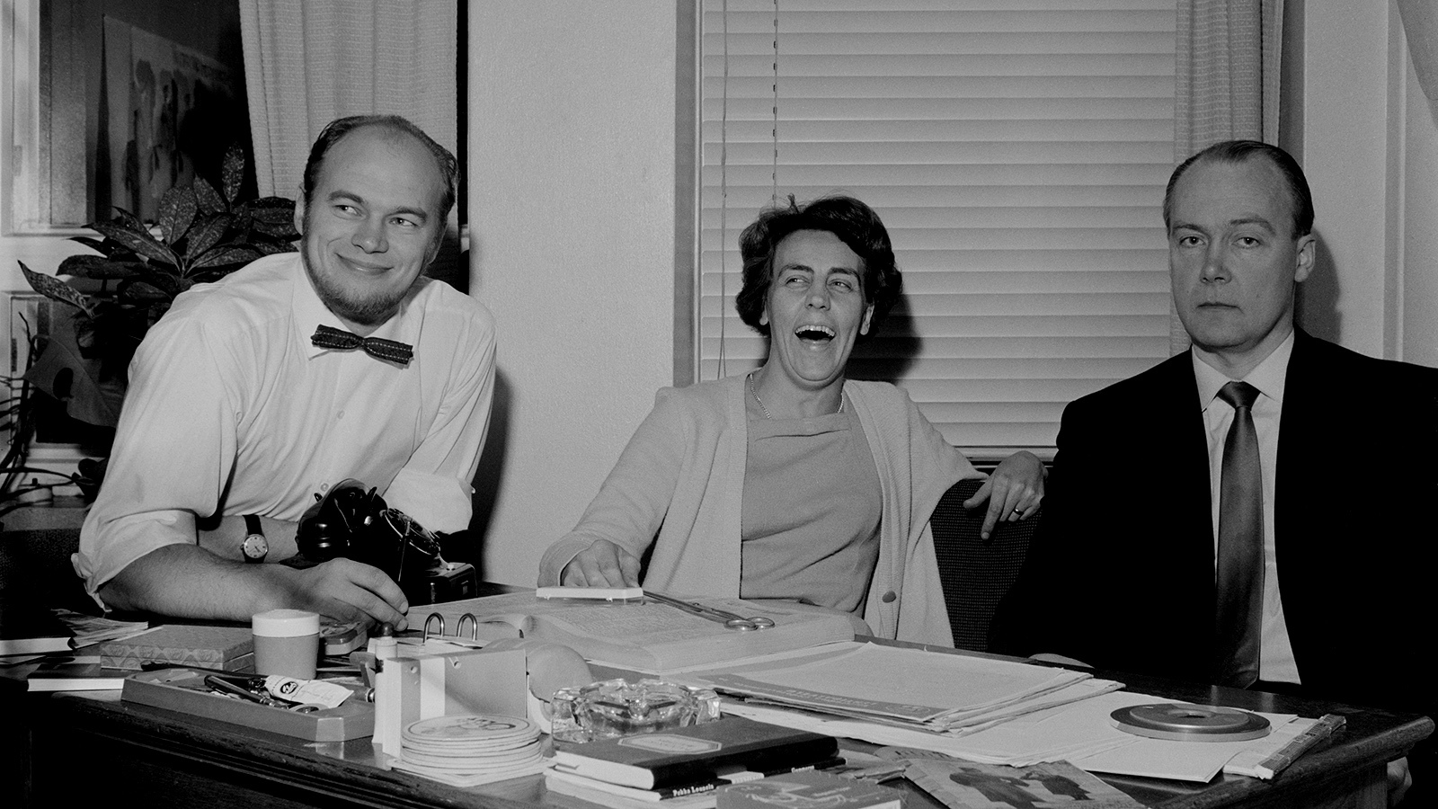 Photograph of three employees at Yleisradio: Pertti “Spede” Pasanen (1930–2001), Aune Haarla (1923–1976), and Antero Alpola (1917–2001).